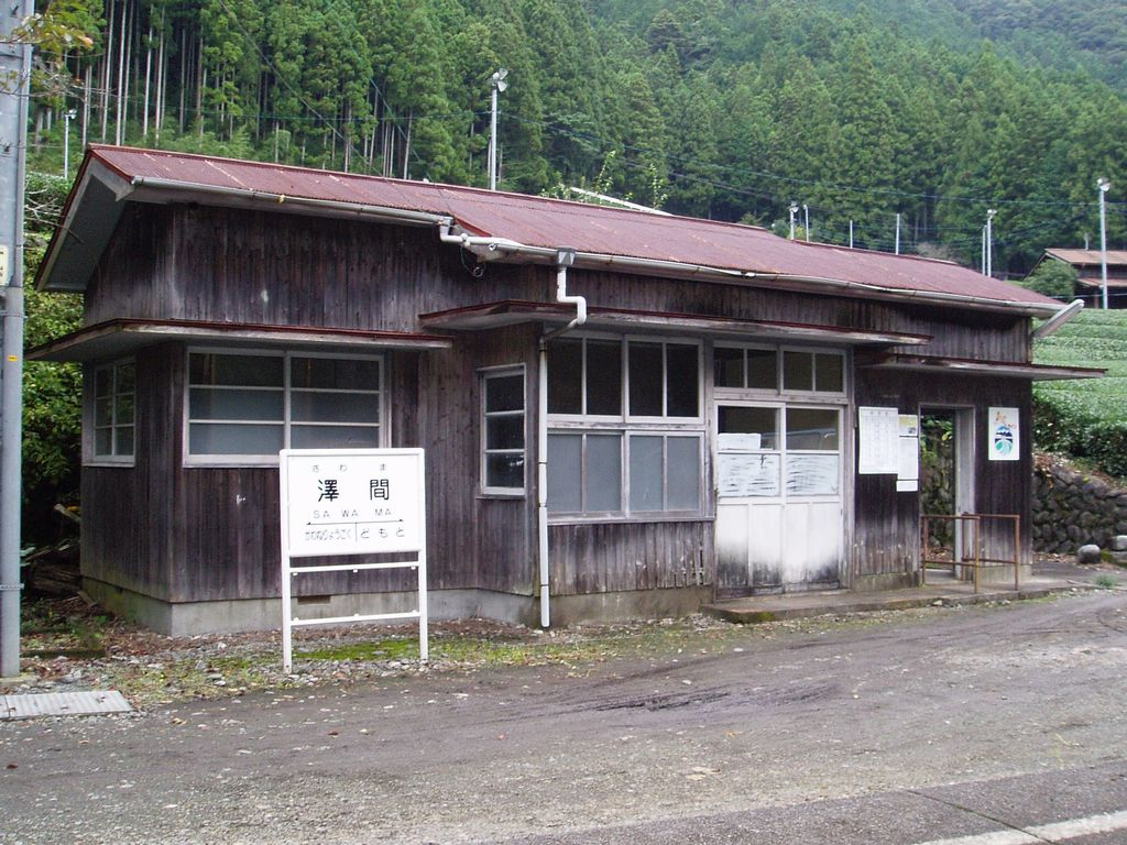 Sawama Sta.